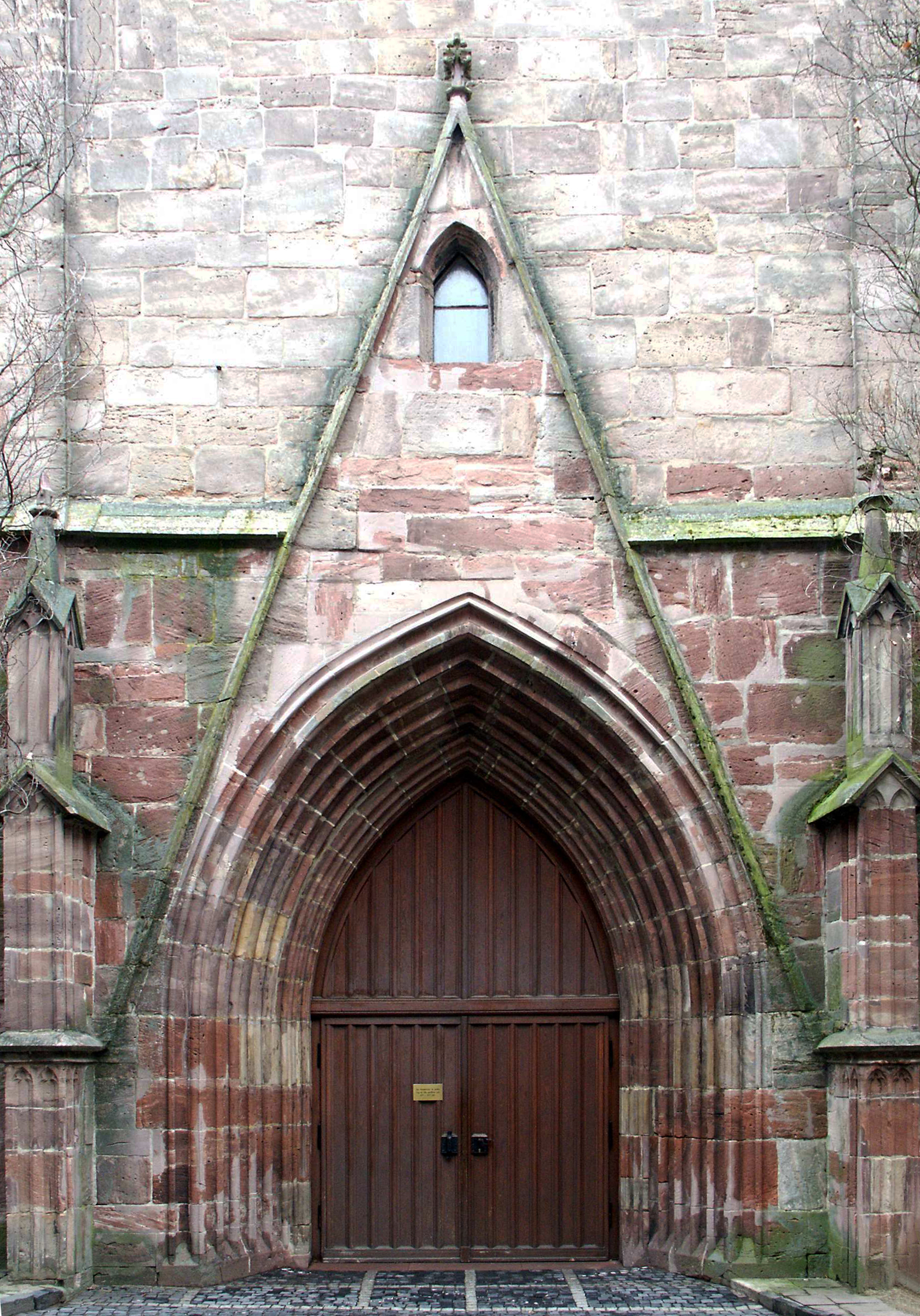 Western portal and Wimperg of town church in Bad Hersfeld (early Gothic architecture)